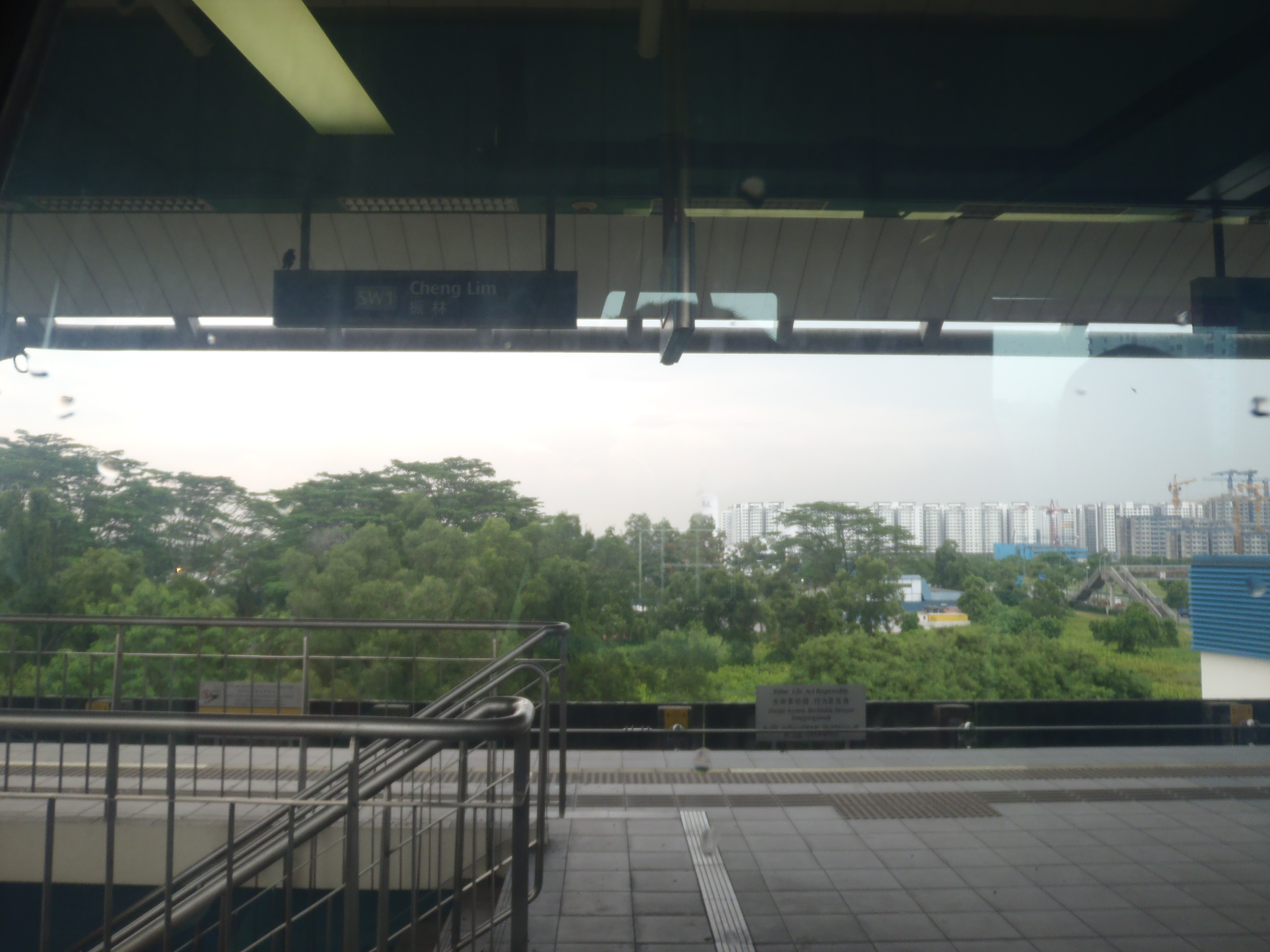 The Cheng Lim LRT Station Platform taken on an LRT train.